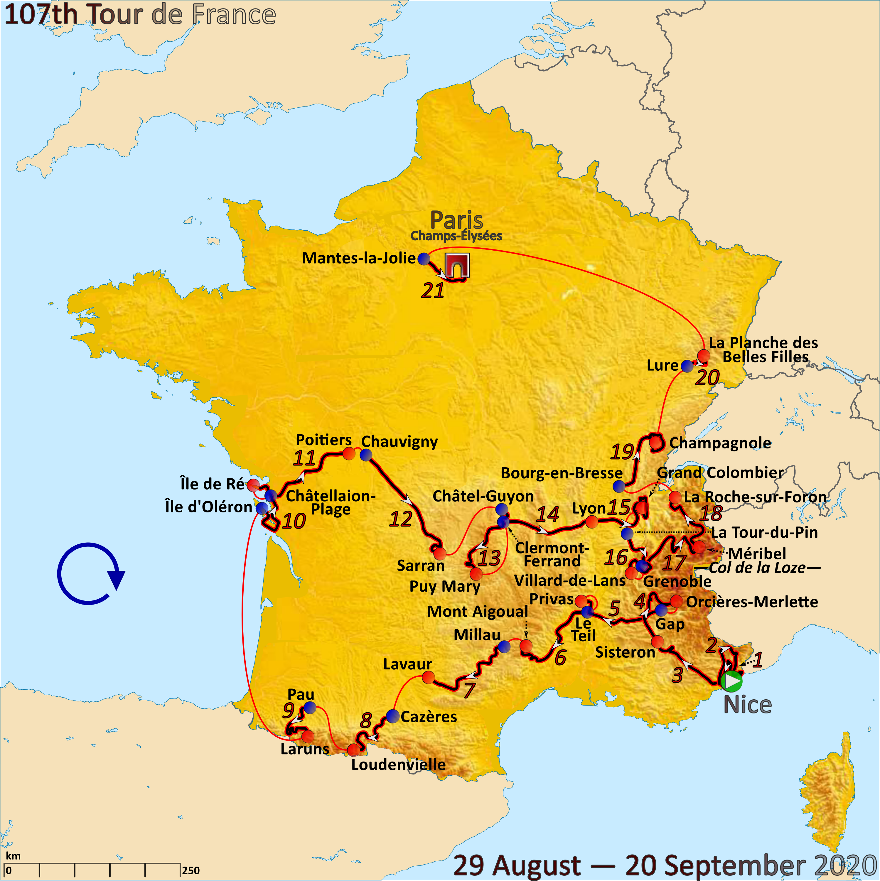 Map of the 2020 Tour de France created in Inkscape using official stage maps as published on letour.fr.